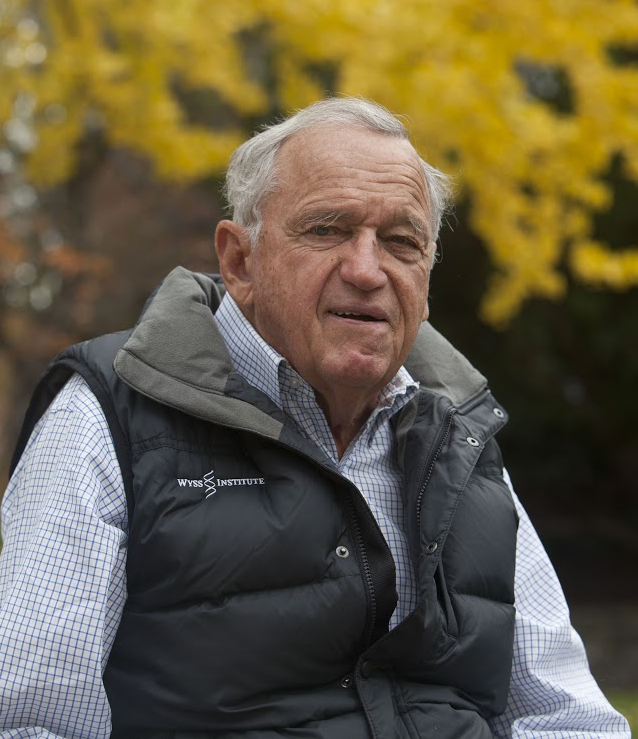 Profile photograph of businessman and philanthropist, Hansjörg Wyss